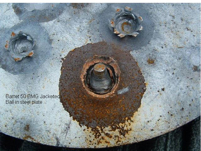 Non AP 50 bmg ball in steel plate